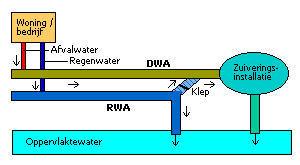 Sewerage and rain water separate processing.